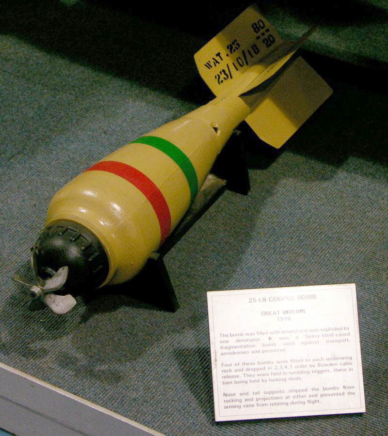 Cooper 25lb bomb as used on the Royal Aircraft Factory S.E.5